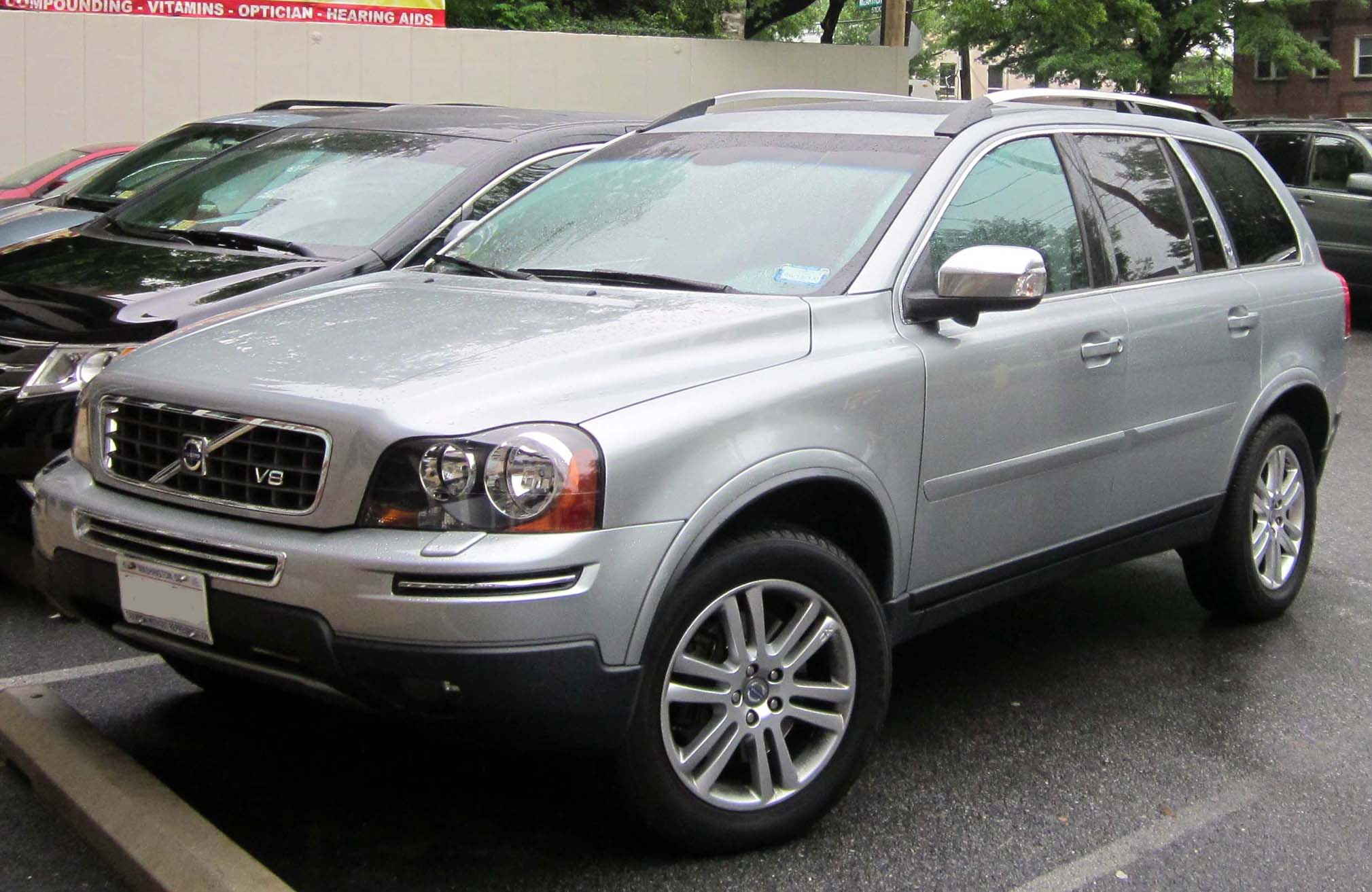 Volvo XC90 photographed in Washington, D.C., USA.